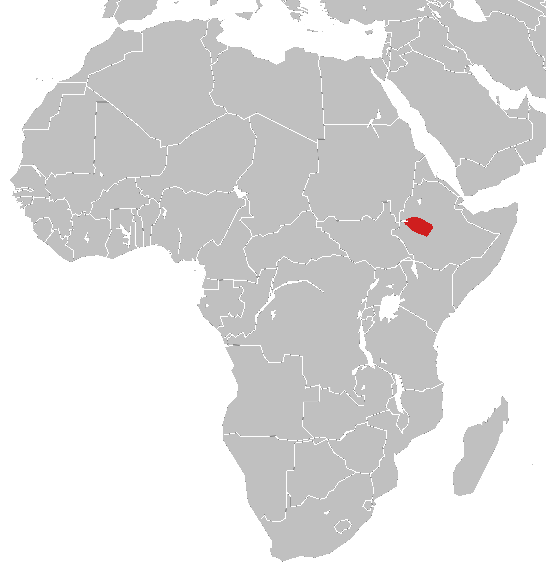 Distribution of Bitis parviocula based on [1].